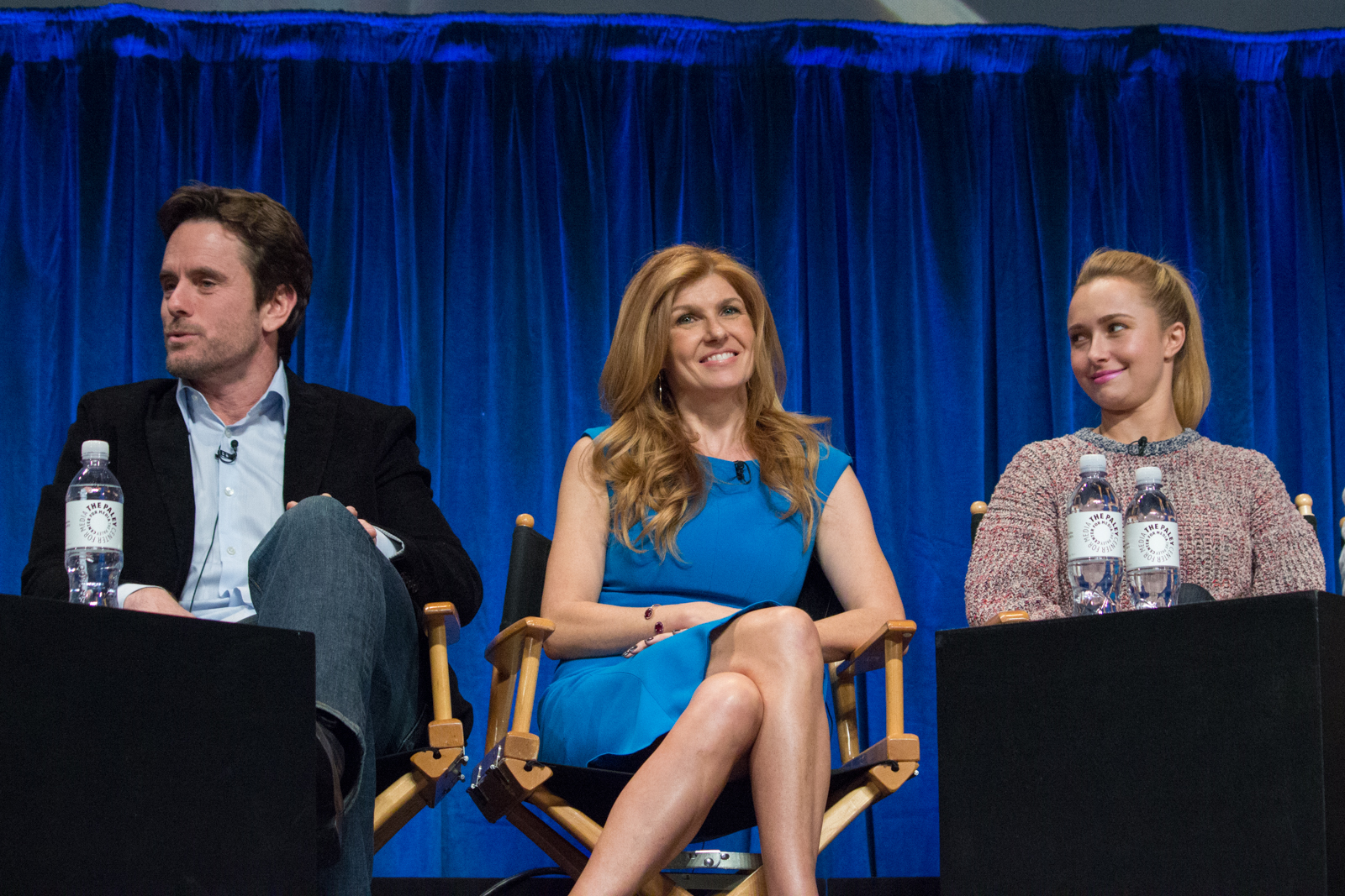 Charles Esten, Connie Britton and Hayden Panettiere at the PaleyFest 2013 panel on the TV show "Nashville"